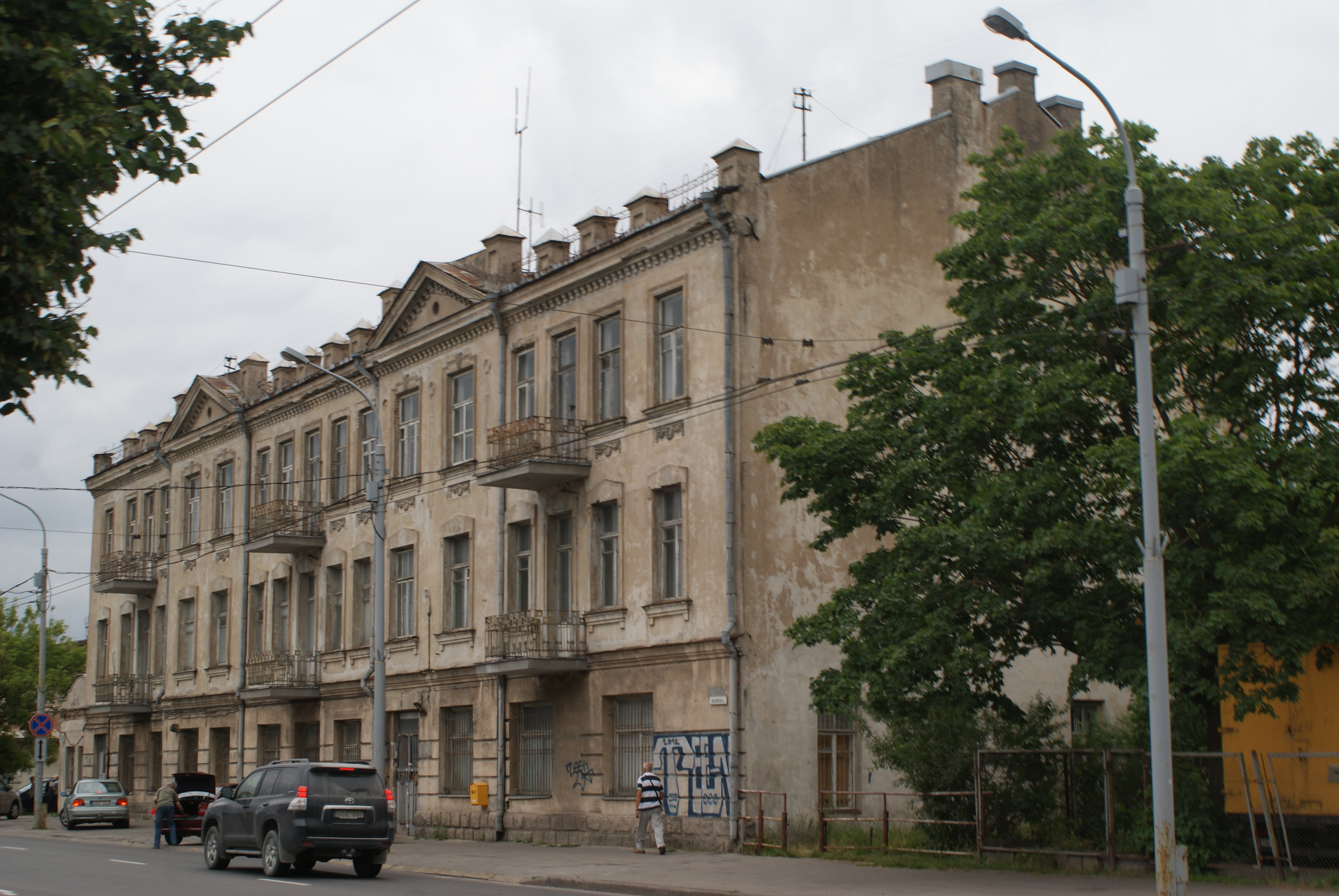 Vilnius